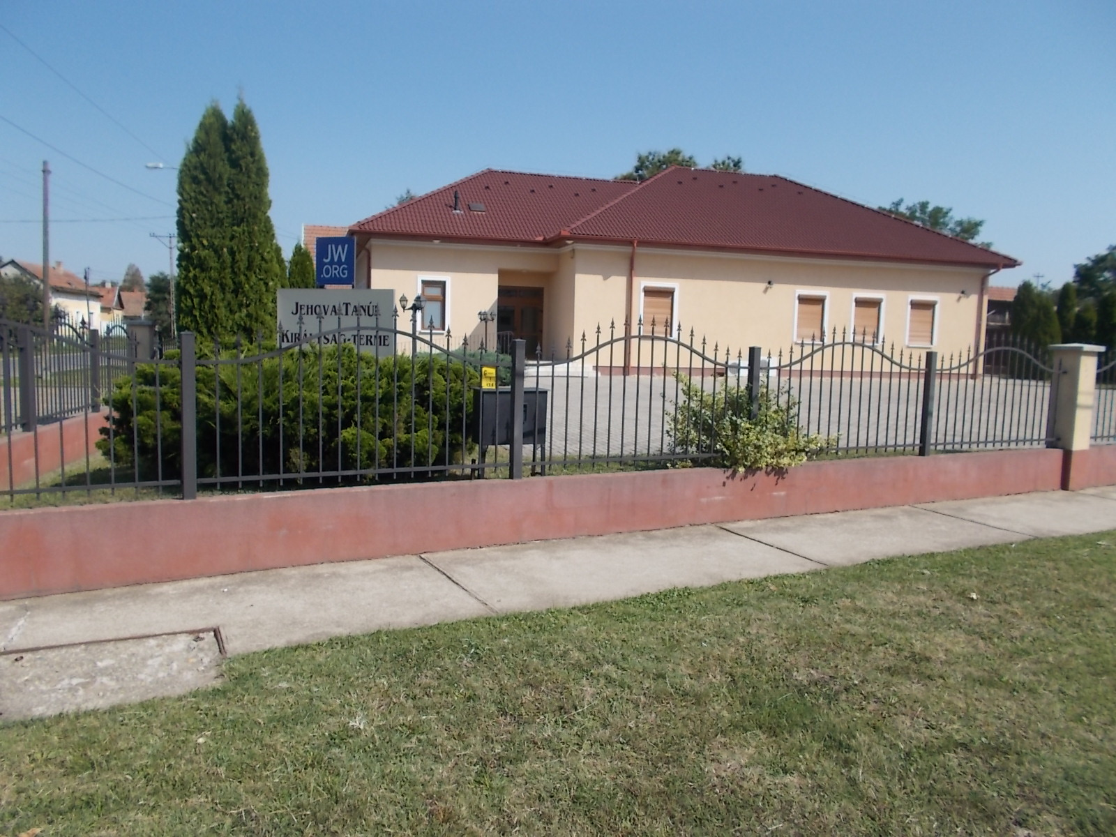 Jehovah's Witnesses Kingdom Hall.- 66 Kazinczy Street, Attila Street cnr., Hajdúnánás, Hajdú-Bihar County, Hungary.